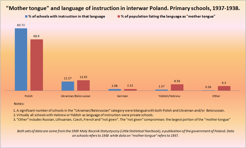 Chart showing % of schools taught in a particular language and % of population listing a particular language as "mother tongue" in interwar Polande